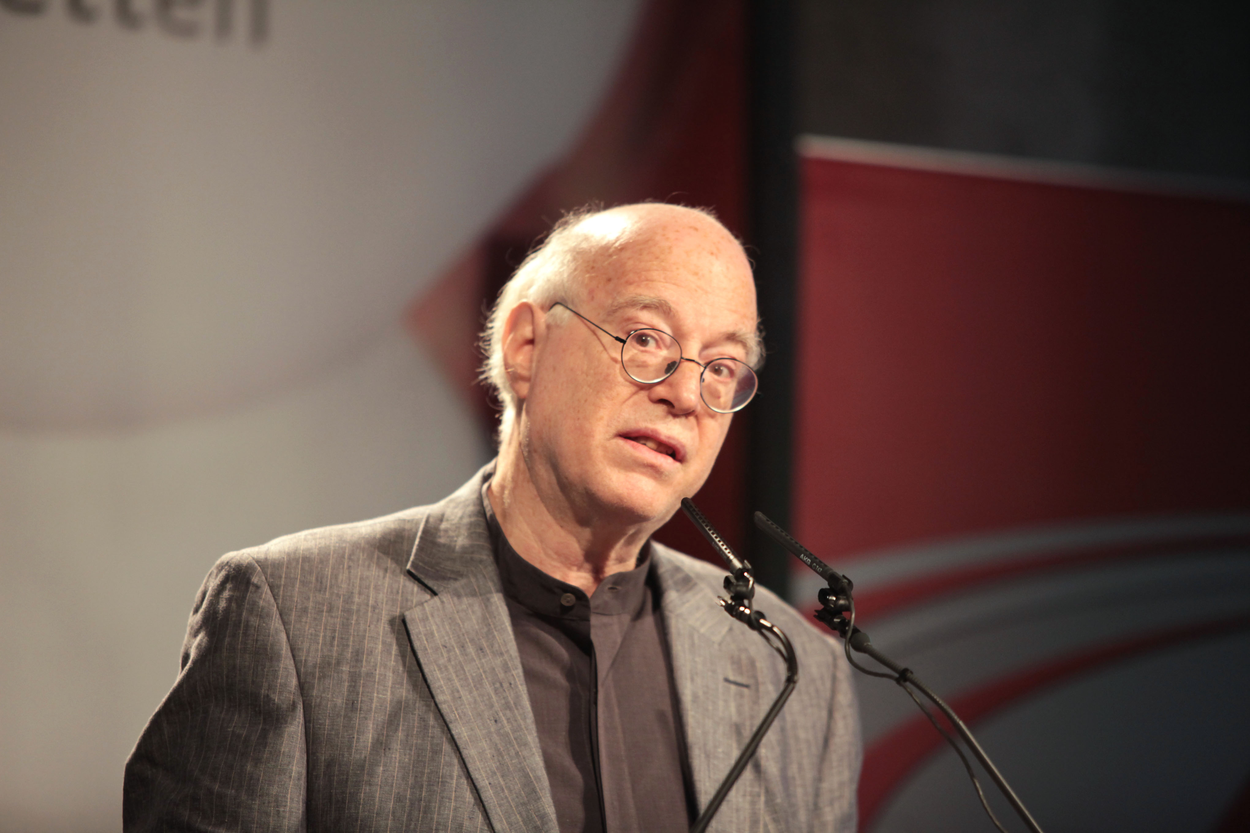 Richard Sennett, at the Linz Lectures, 2010